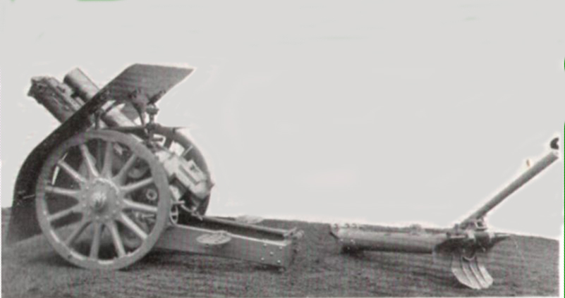 7,5 cm Mountain Howitzer (Austria-Hungaria).